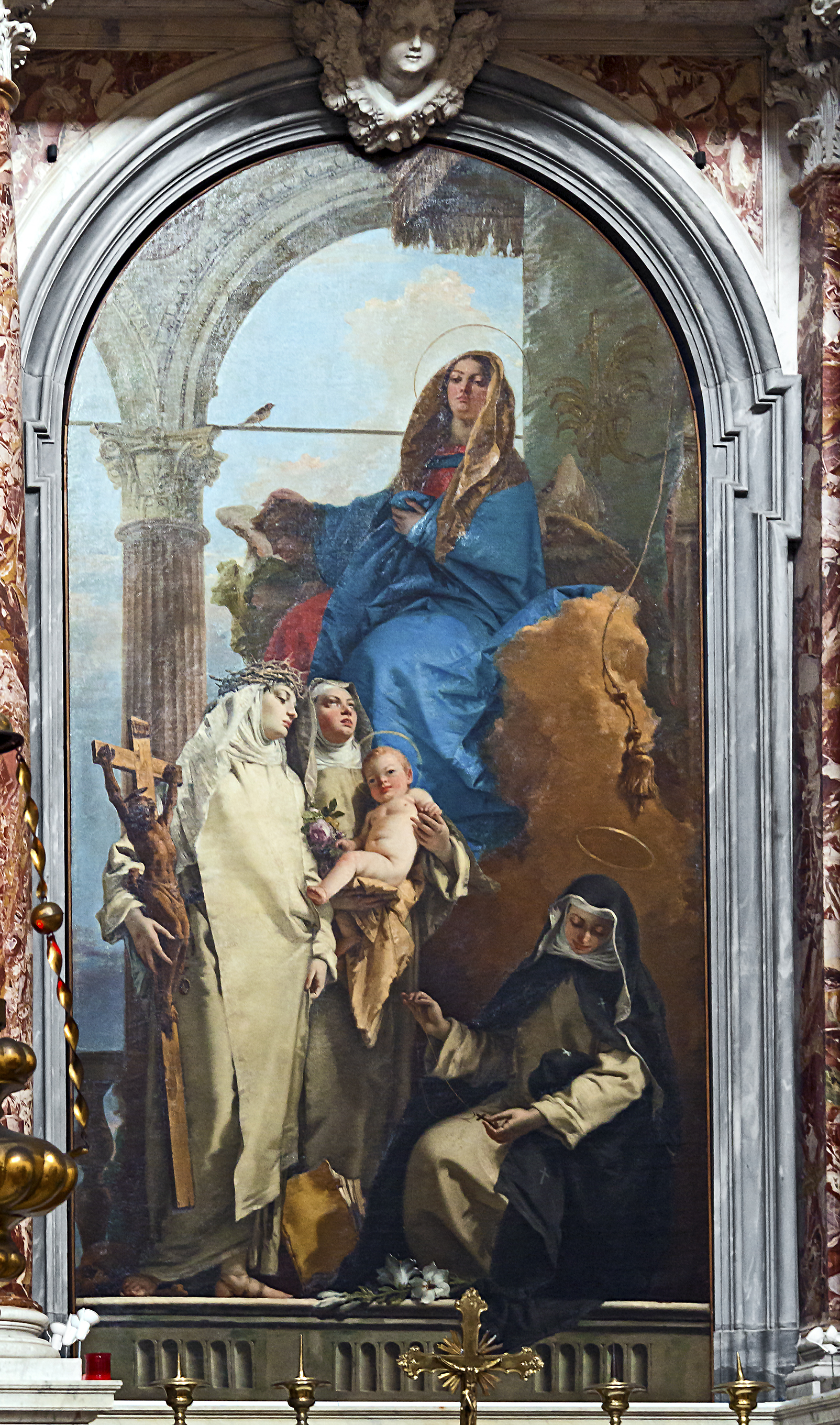 Chuch of Santa Maria del Rosario o dei Gesuati. "The Virgin Appearing to Dominican Saints", by Giovanni Battista Tiepolo, painted in 1739. St Catherine of Siena sitting on the right with a lily near her feets, St Rose of Lima, standing on the left, holding a cross with the crucified Christ and on her head a crown of thorns and St Agnes of Montepulciano (who had only been canonised in 1726)also standing on the left and holding the Christ child with rose in his hand.